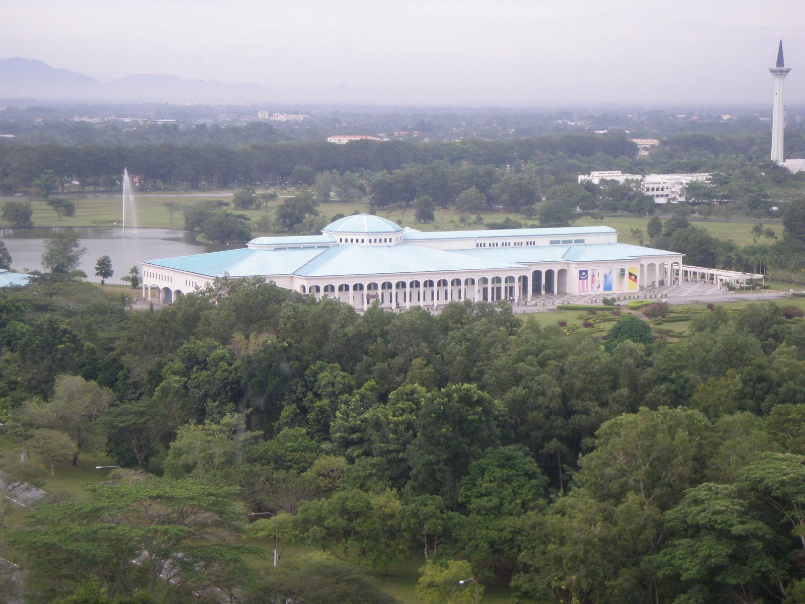 Sarawak State Library in Petra Jaya. Viewed from 21st floor of Menara Pelita.